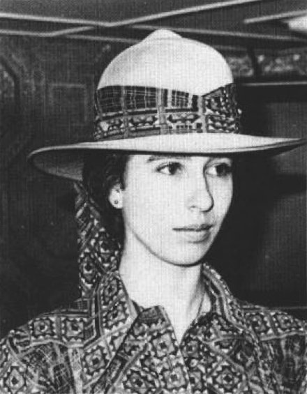 Anne, Princess Royal of the United Kingdom at Massawa, Ethiopia, in February 1973. Ethiopia celebrated the graduation of its naval cadets during a four-day international naval pageant called "Imperial Ethiopian Navy Days". Maritime powers and other nations, at the invitation of the world’s senior head of state, His Imperial Majesty Haile Selassie I, sent representatives to the port city of Massawa to attend the affair. In 1973, countries represented were: the United States, Great Britain, France, the Soviet Union, Iran, India, Sudan, The Netherlands, West Germany, Norway, and Italy. The first eight nations were represented by naval commands.